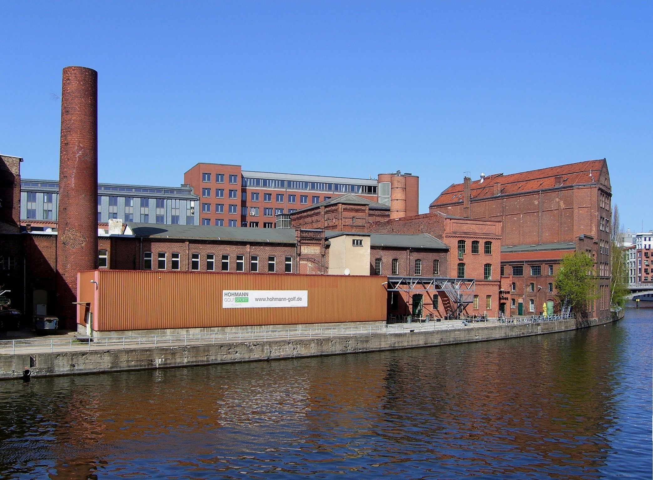 Idle plant "Gebauer Höfe" (former textile engineering works) in Berlin-Charlottenburg. Viewing direction from river Spree to north.